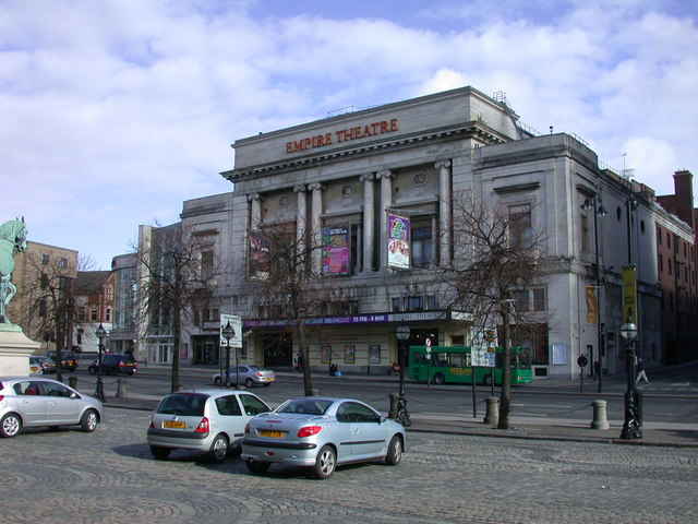 Empire Theatre, Liverpool Just 1 day left of the run of Joseph and the Amazing Technicolor Dreamcoat